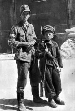 Warsaw Uprising: Soldier and his "helper" around Warsaw University of Technology University